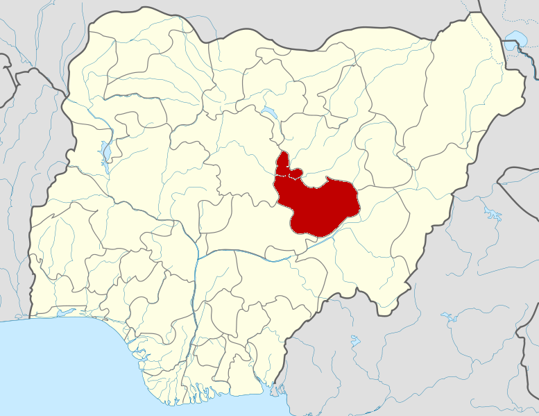 Map locator of Nigeria.